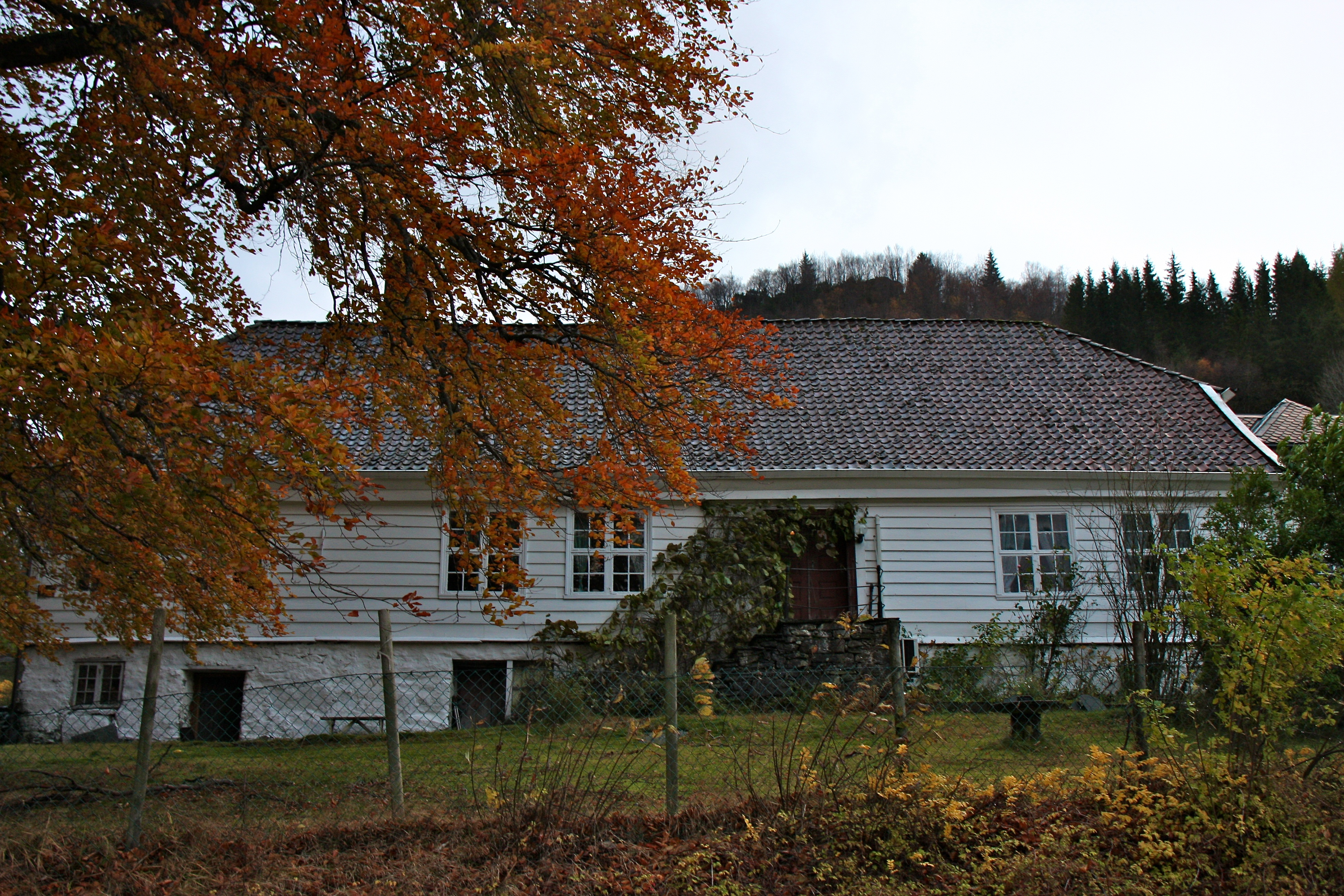 Lovisendal (Brekke) in Gulen municipality, Norway.